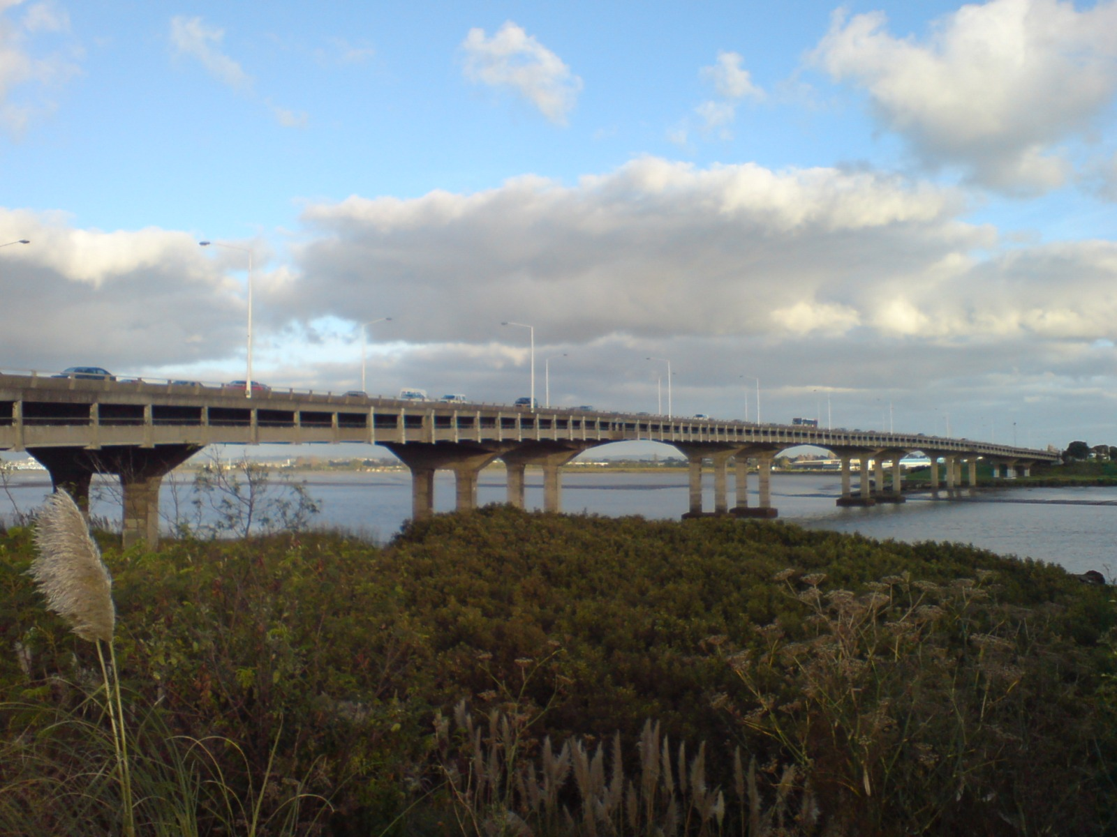 Mangere Bridge in Auckland, New Zealand, seen from the Onehunga (North) end. The pedestrian- and cycleway can be seen slung underneath the western side of the bridge. A duplicate bridge (opened 2010) was built on the eastern side of this bridge.